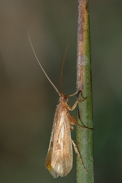 Limnephilus flavicornis from Commanster, Belgian High Ardennes .